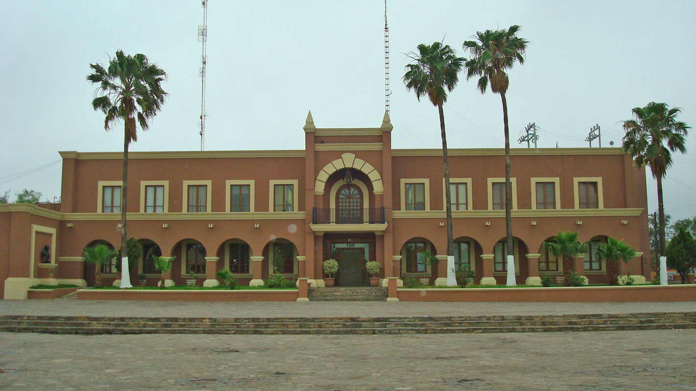 View of the Municipal Palace of the Municipality of General Escobedo, in the metropolitan Monterrey region, Nuevo León state, Northeastern México.